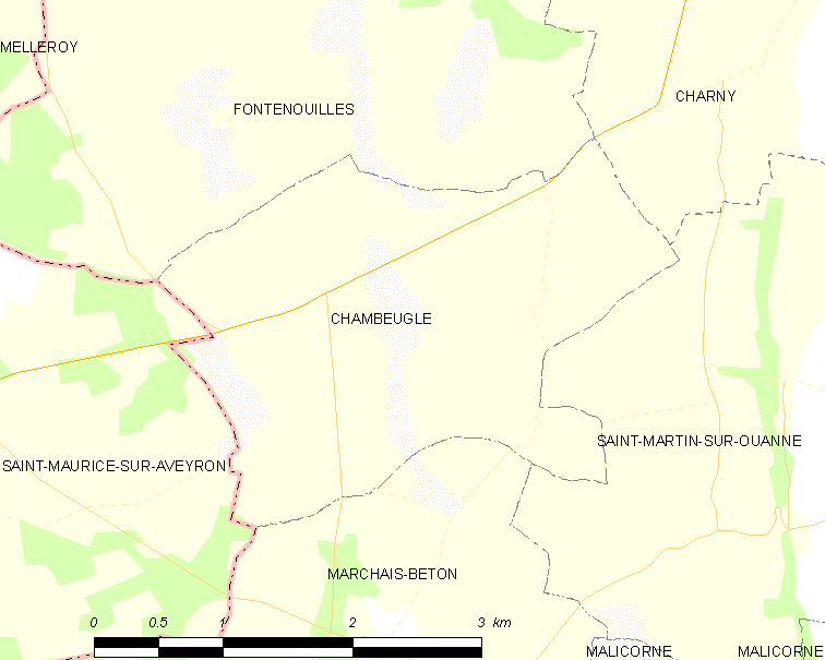 Map of French municipality Chambeugle